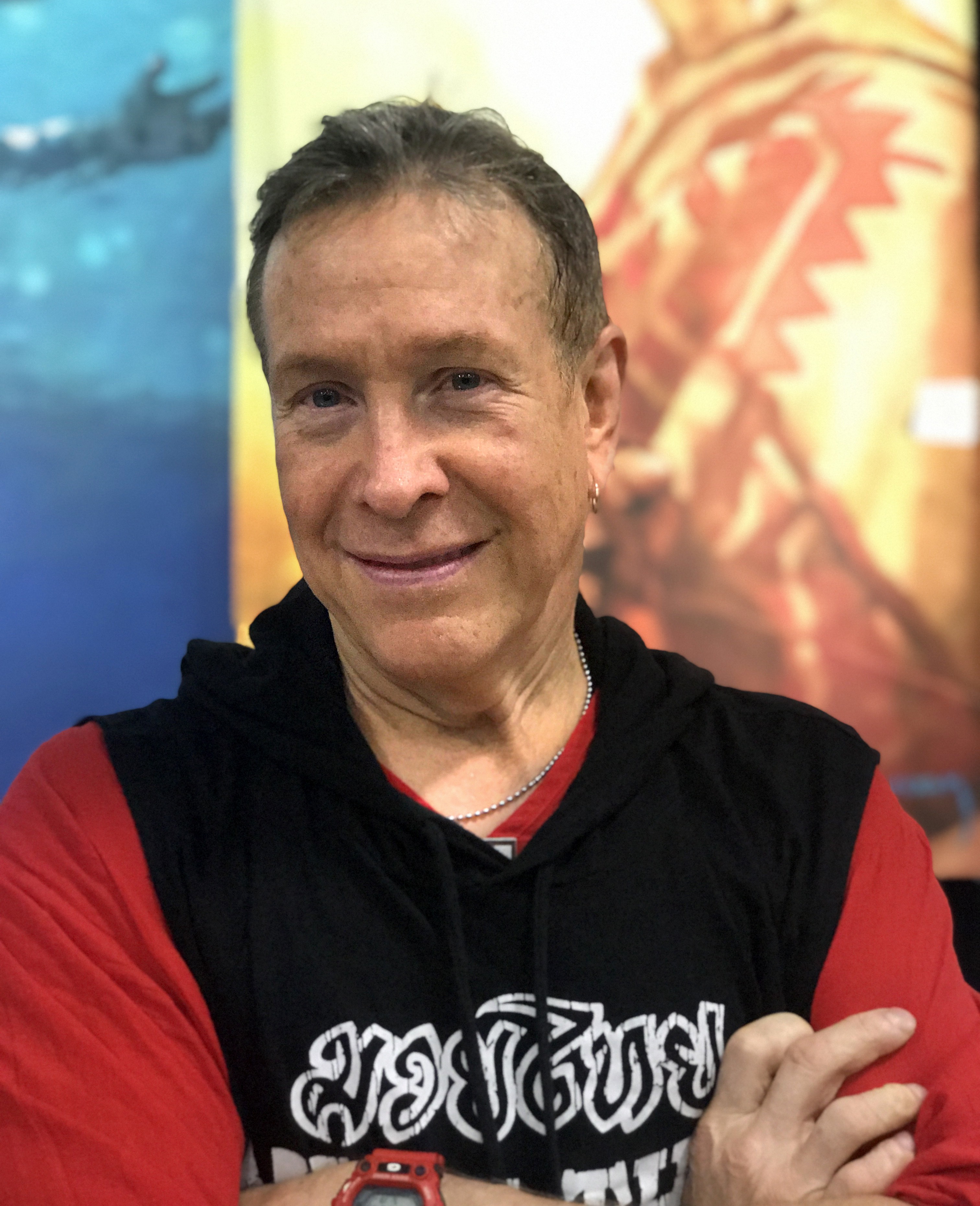 Comic book creator Arthur Suydam at the Meadowlands Exposition Center in Secaucus, New Jersey on Sunday, May 19, 2019, Day 3 of the East Coast Comicon. This photo was created by Luigi Novi. It is not in the public domain, and use of this file outside of the licensing terms is a copyright violation.